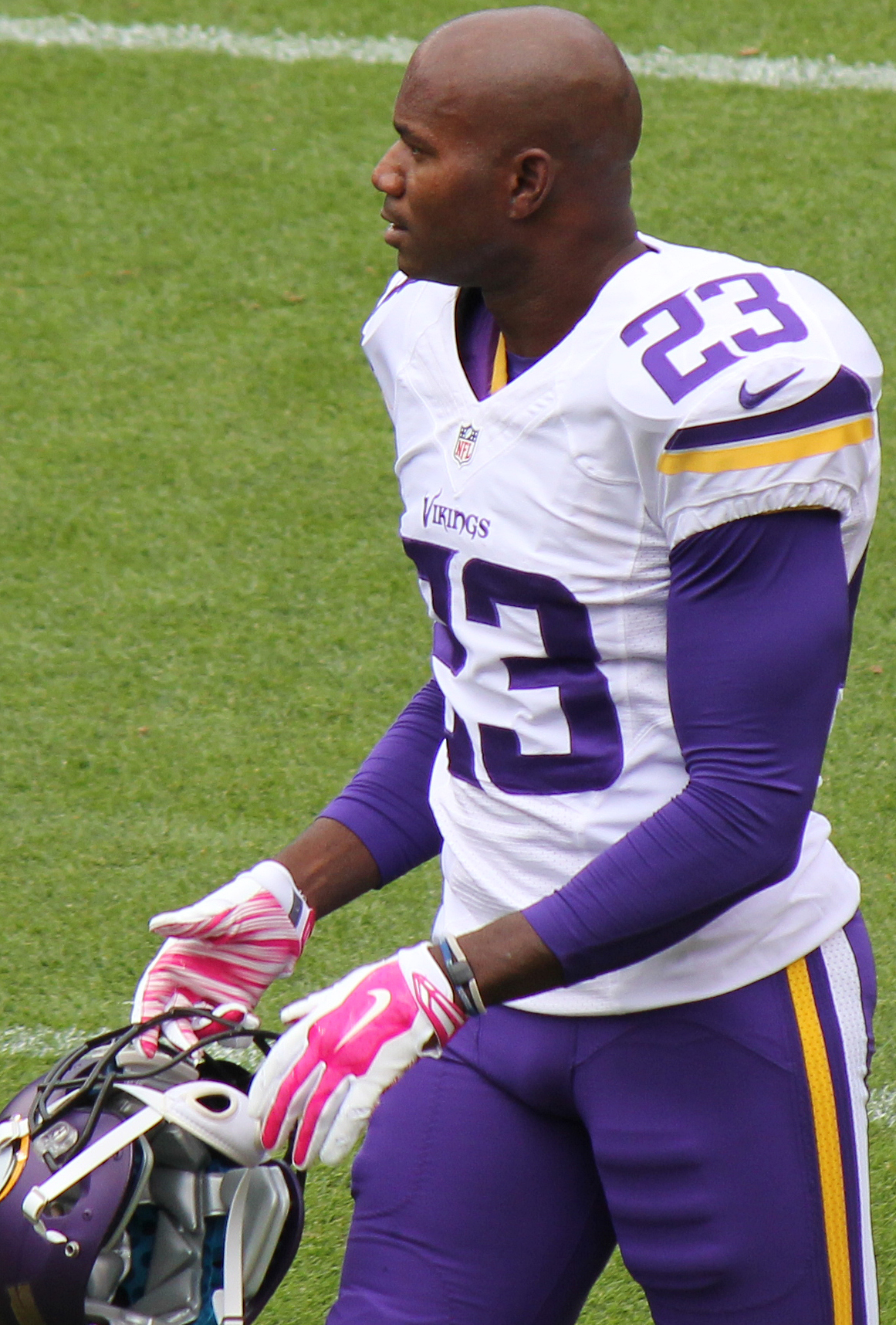 Terence Newman, a player on the National Football League.